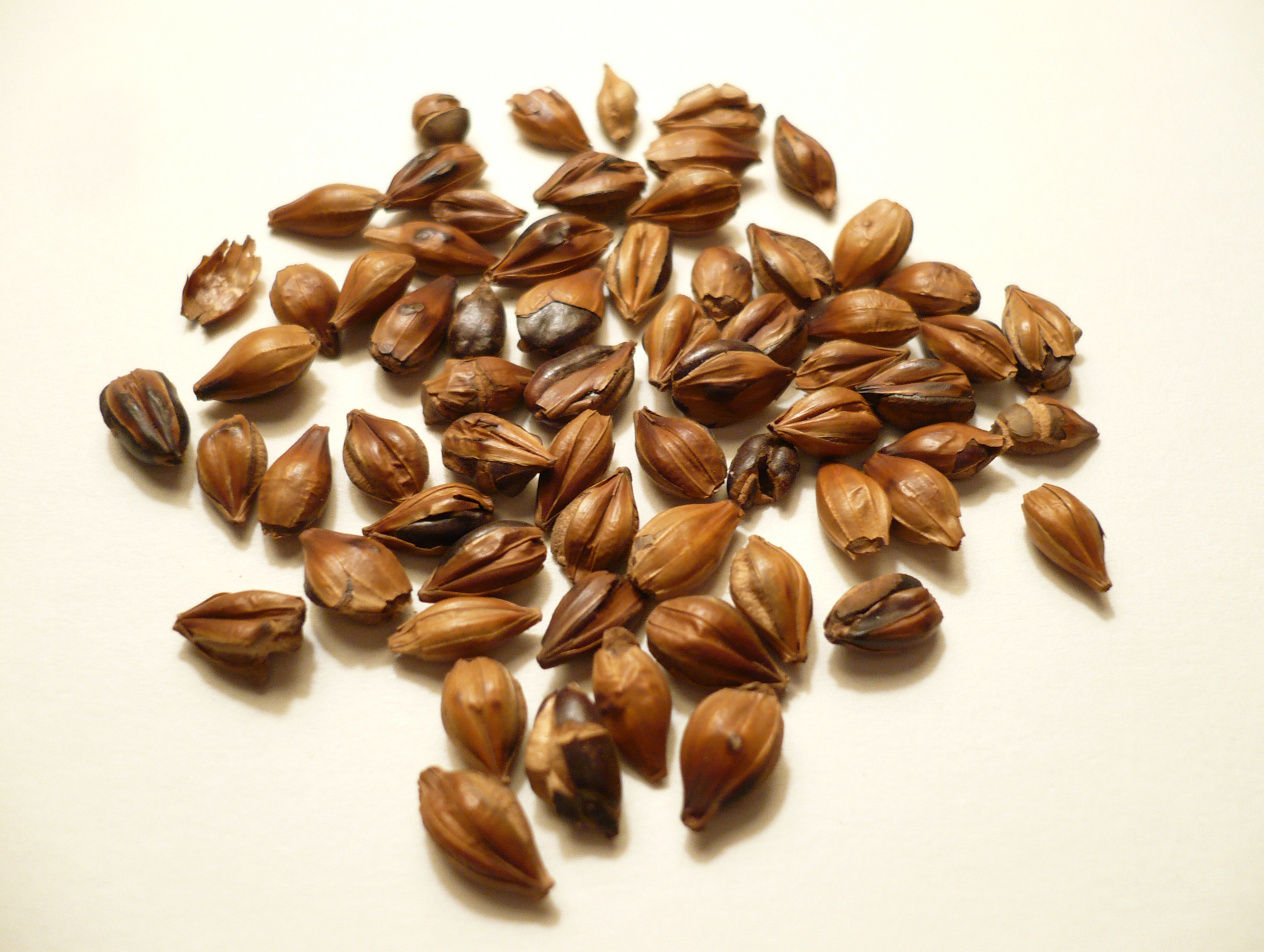 Grains of bori cha, a Korean tisane made by boiling toasted barley. Photo taken in Kent, Ohio with a Panasonic Lumix digital camera (model DMC-LS75). Bori cha purchased in a northeast Ohio-area Korean grocery store.